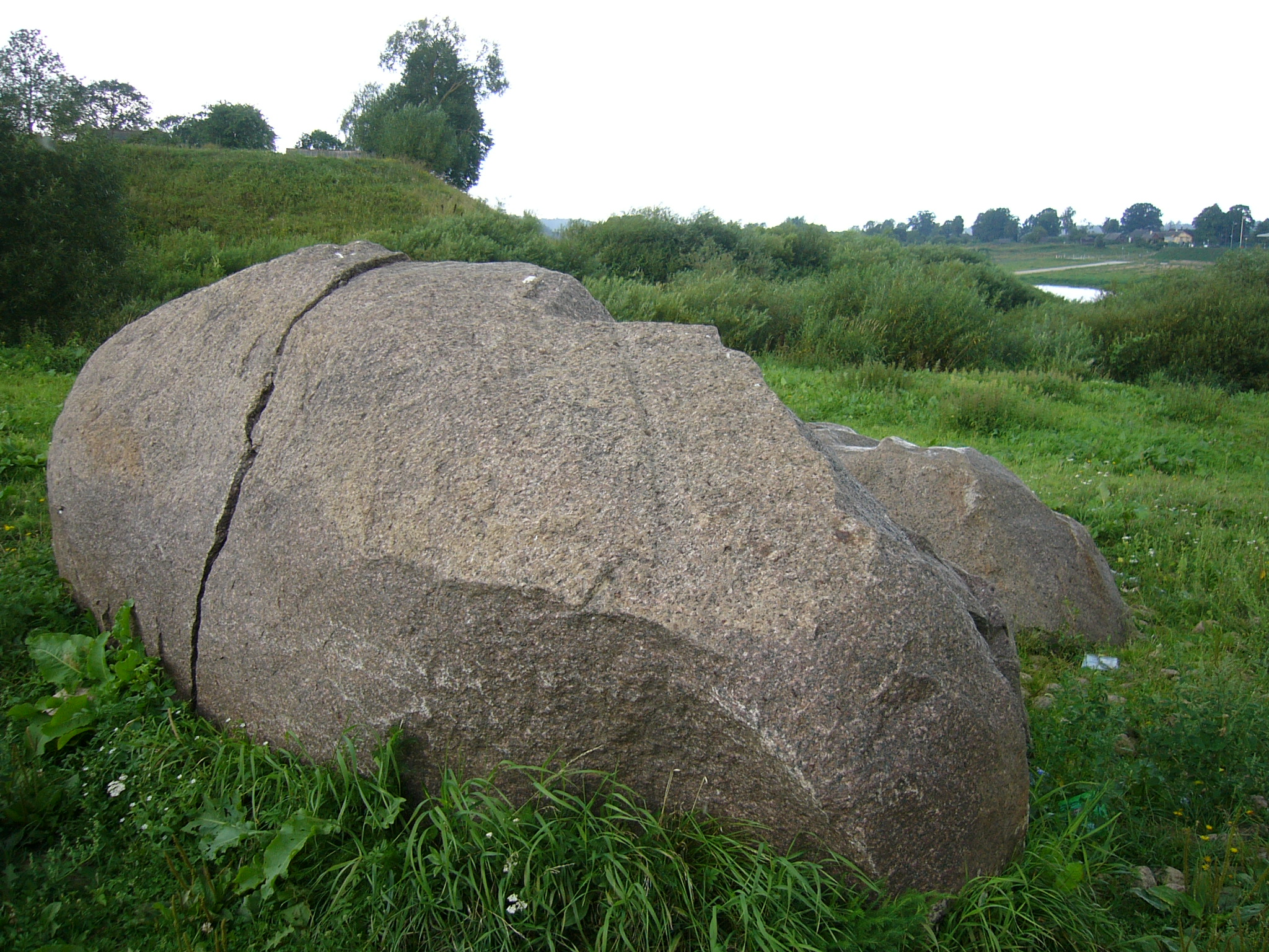 Barys rock in Druja